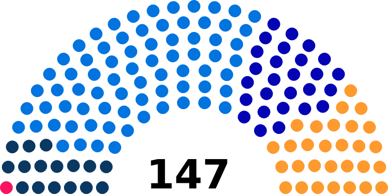 Seats diagramme of Swiss National Council (1893)